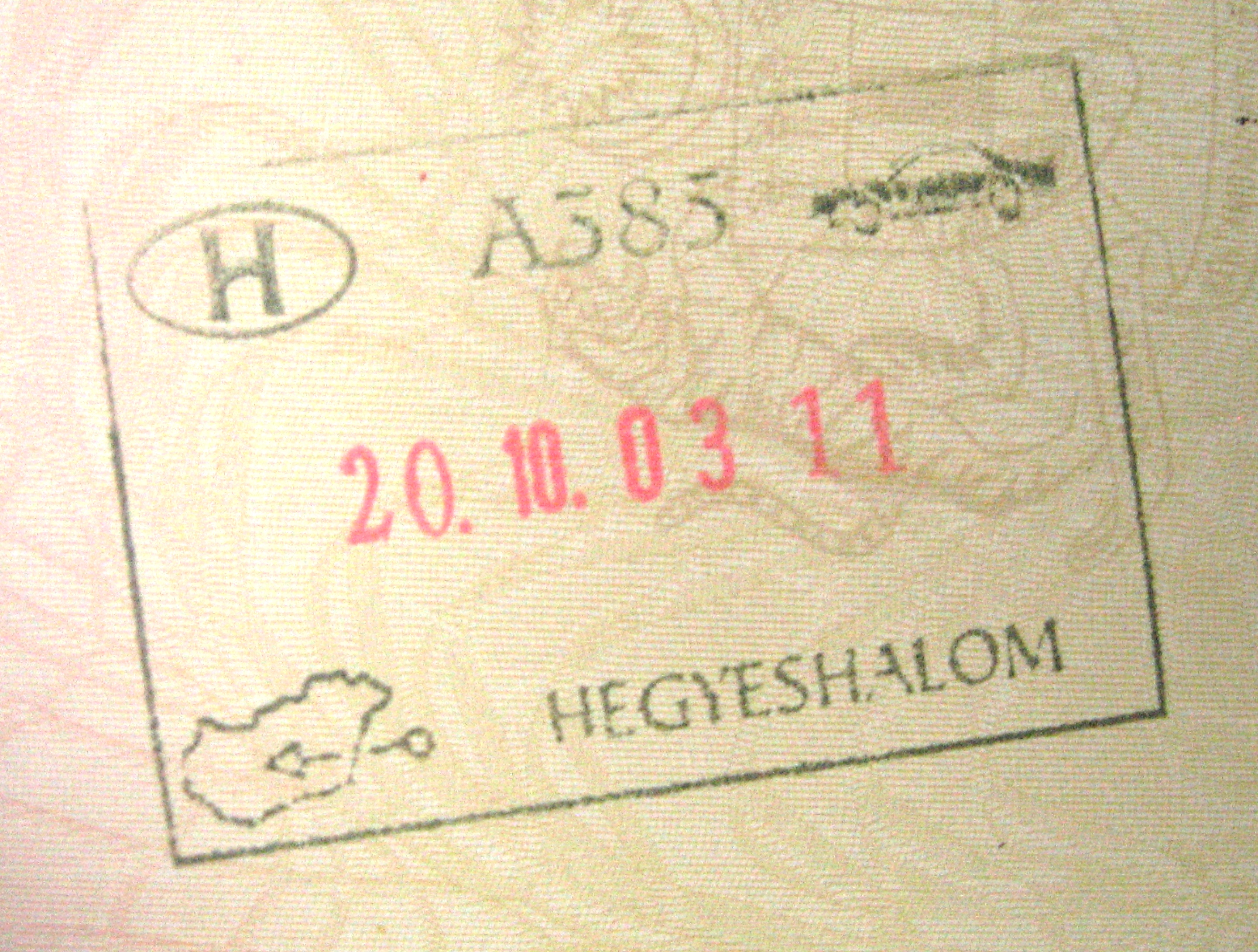 Passport entry stamp from Hegyeshalom, Hungary, 2003.